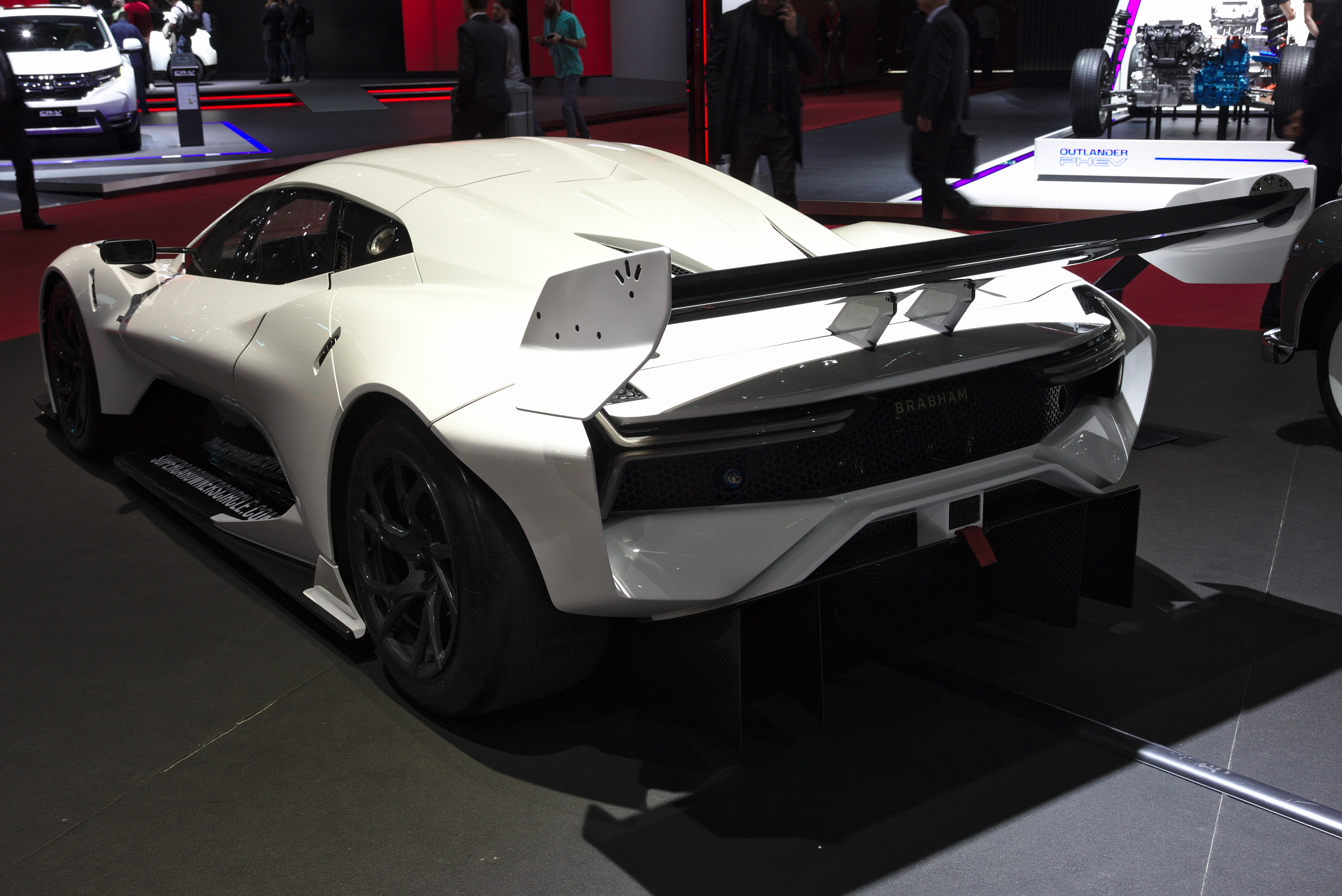 Brabham BT62 at Geneva Motor Show 2019